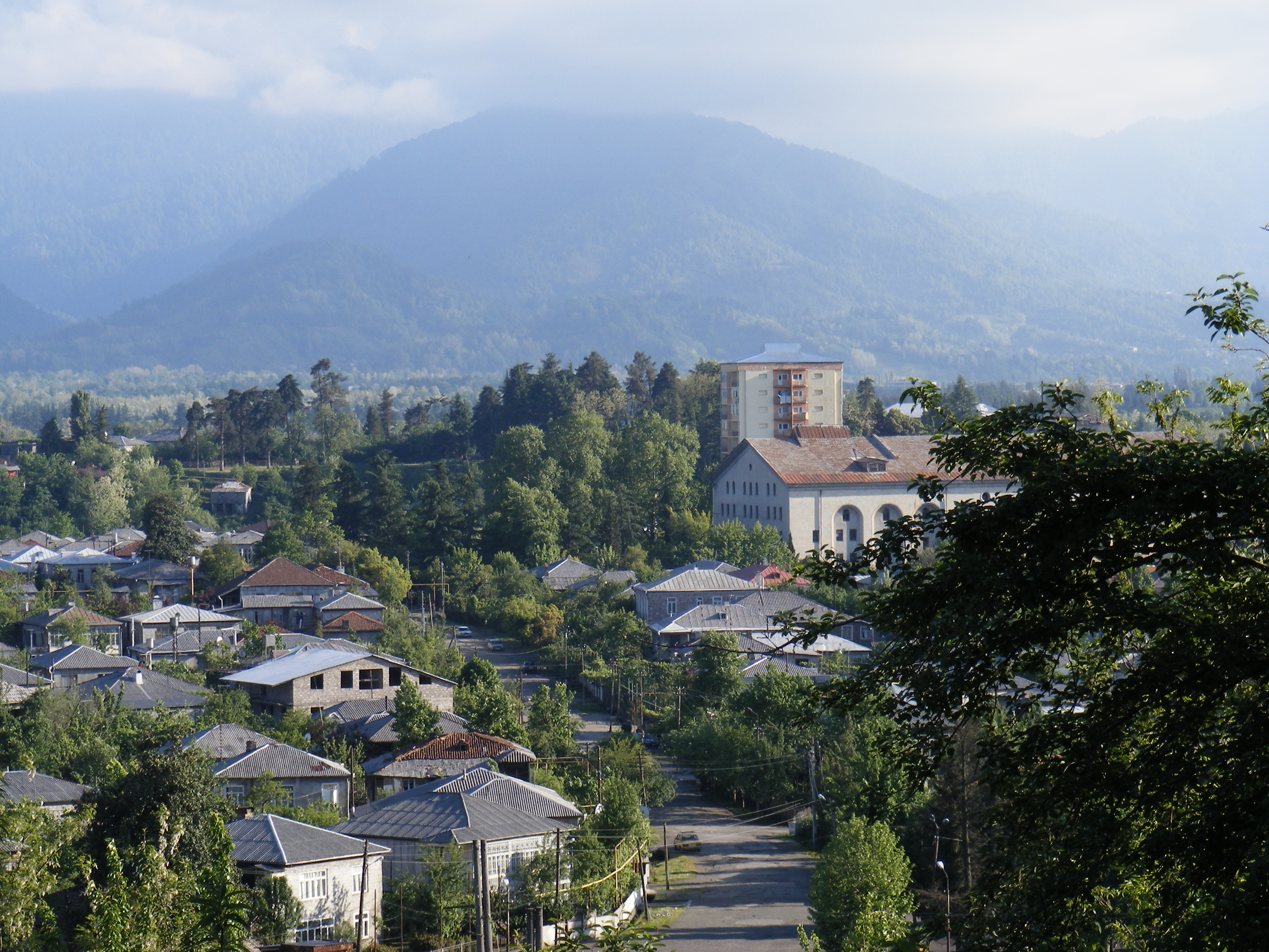 view town Ozurgeti from neighborhood Moidanakhe